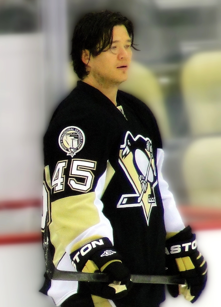 Aaron Asham warms up prior to a playoff game between the Pittsburgh Penguins and Tampa Bay Lightning April 23, 2011 at Consol Energy Center in Pittsburgh, PA.